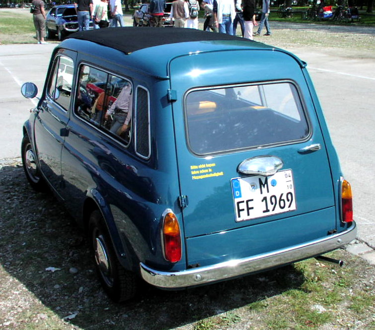 Fiat 500 Giardiniera (Station Wagon) at Vintage Vehicle Meeting in Munich, Theresienwiese.